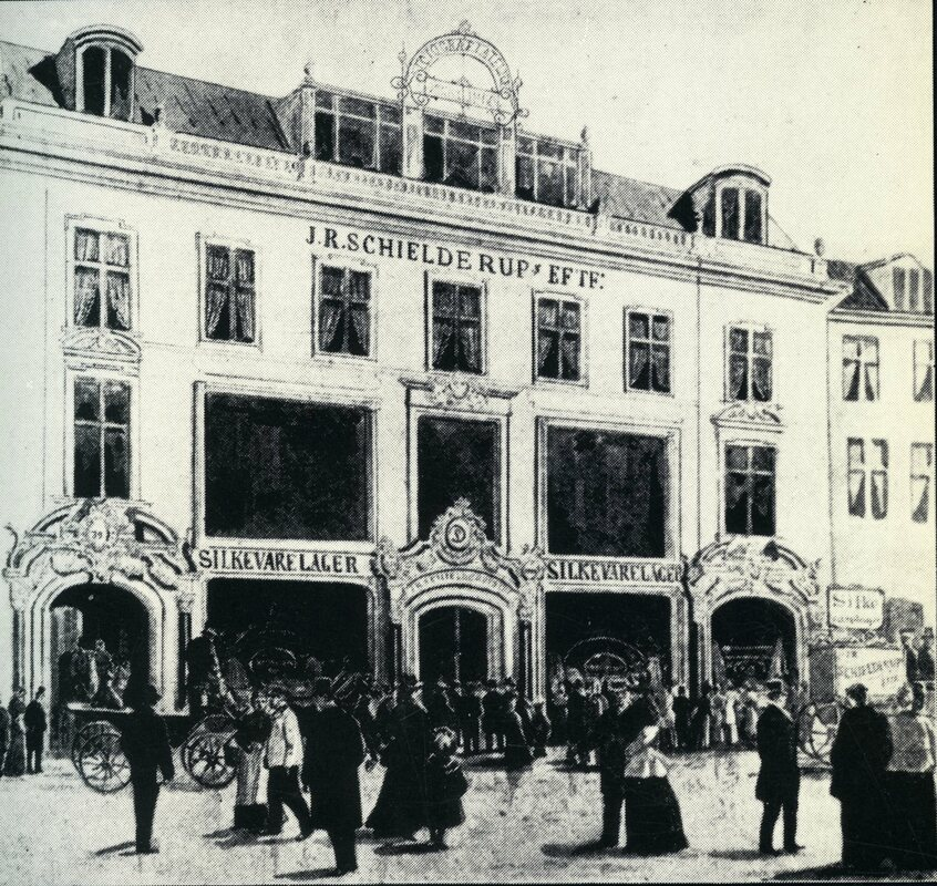 Vimmelskaftet 39-41 in Copenhagen, Denmark. Illustration from Illustreret Tidende.